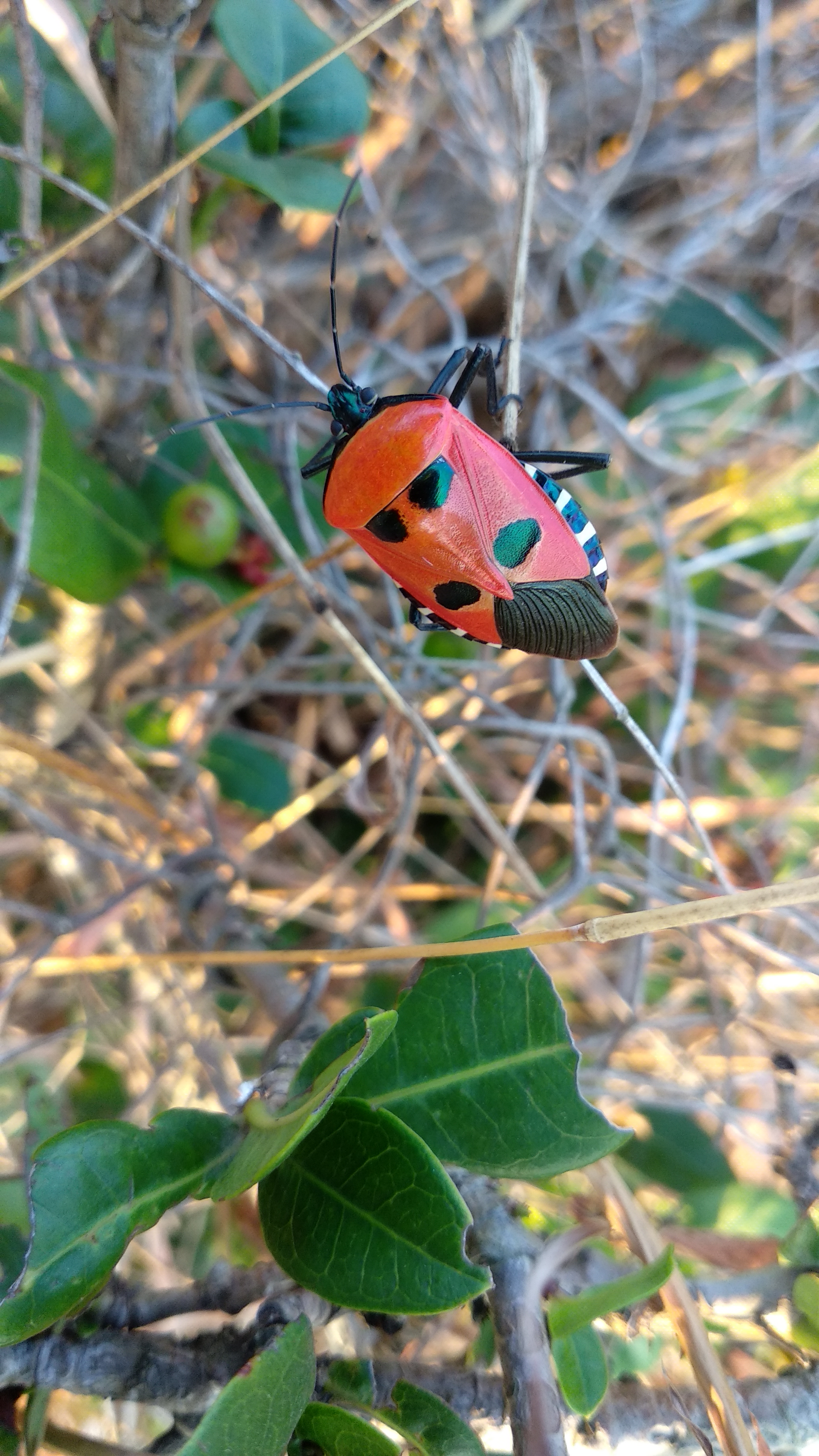 Catacanthus incarnatus ( Hitler Bug ) from Madikai, Kasaragod, India